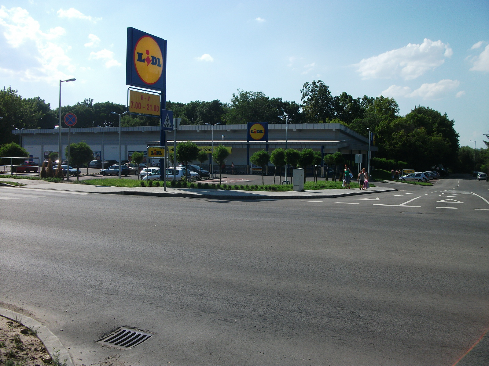 The Lidl supermarket in Gárdony, Hungary.